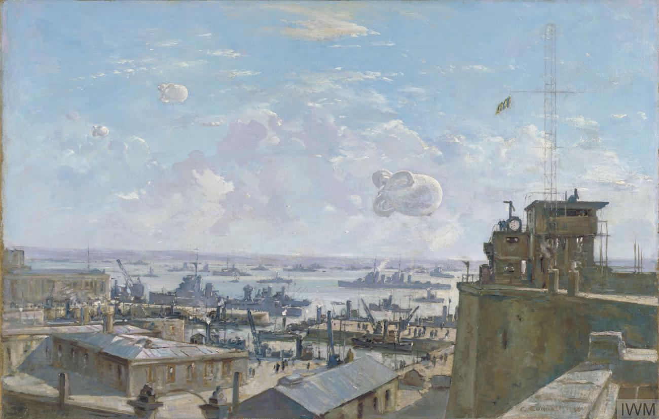 A rooftop view over the Thames estuary at Sheerness showing shipping and barrage balloons with dock buildings to the foreground.